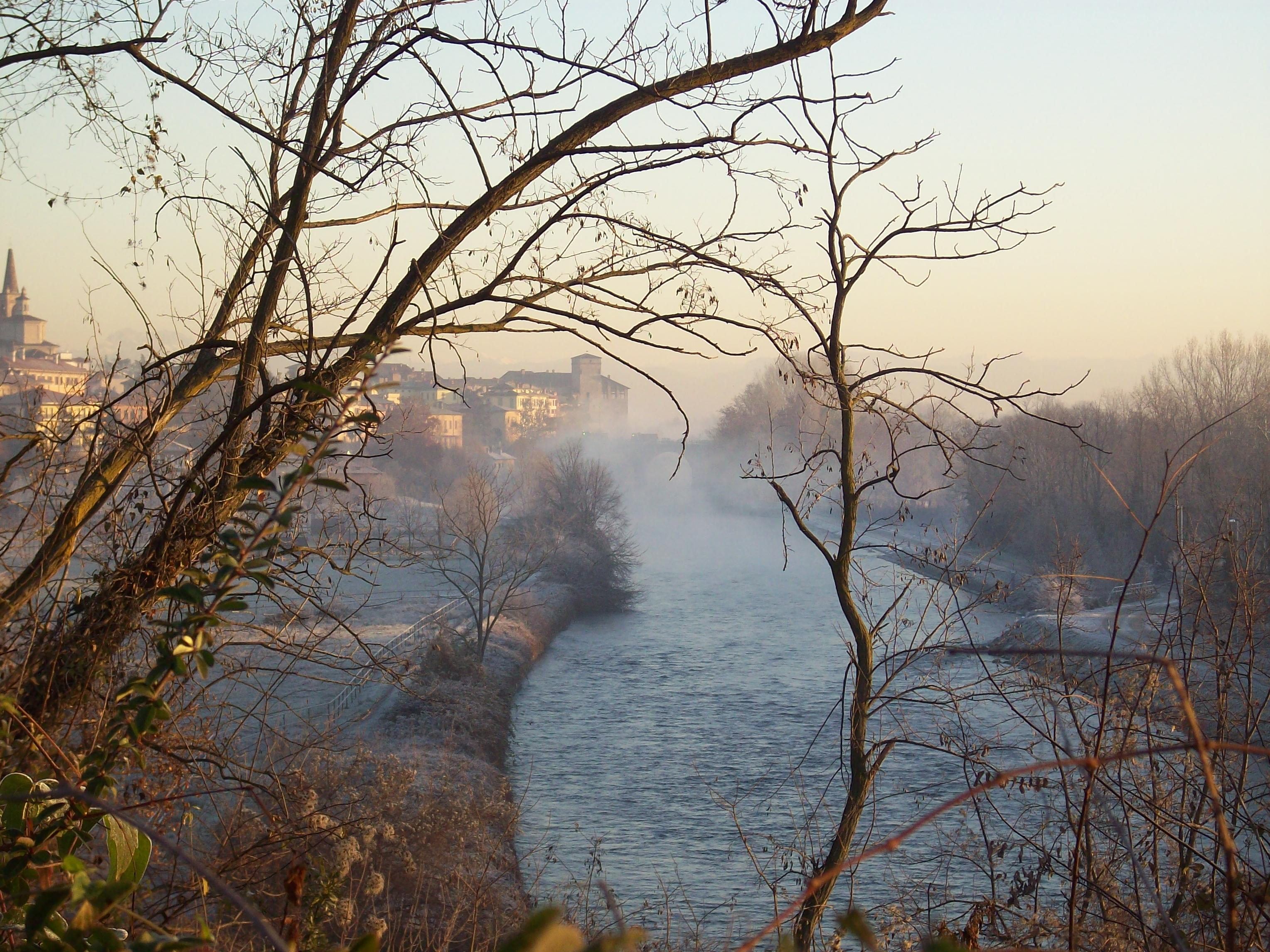 Autumn wiew of Cassano d'Adda (MI), Italy.